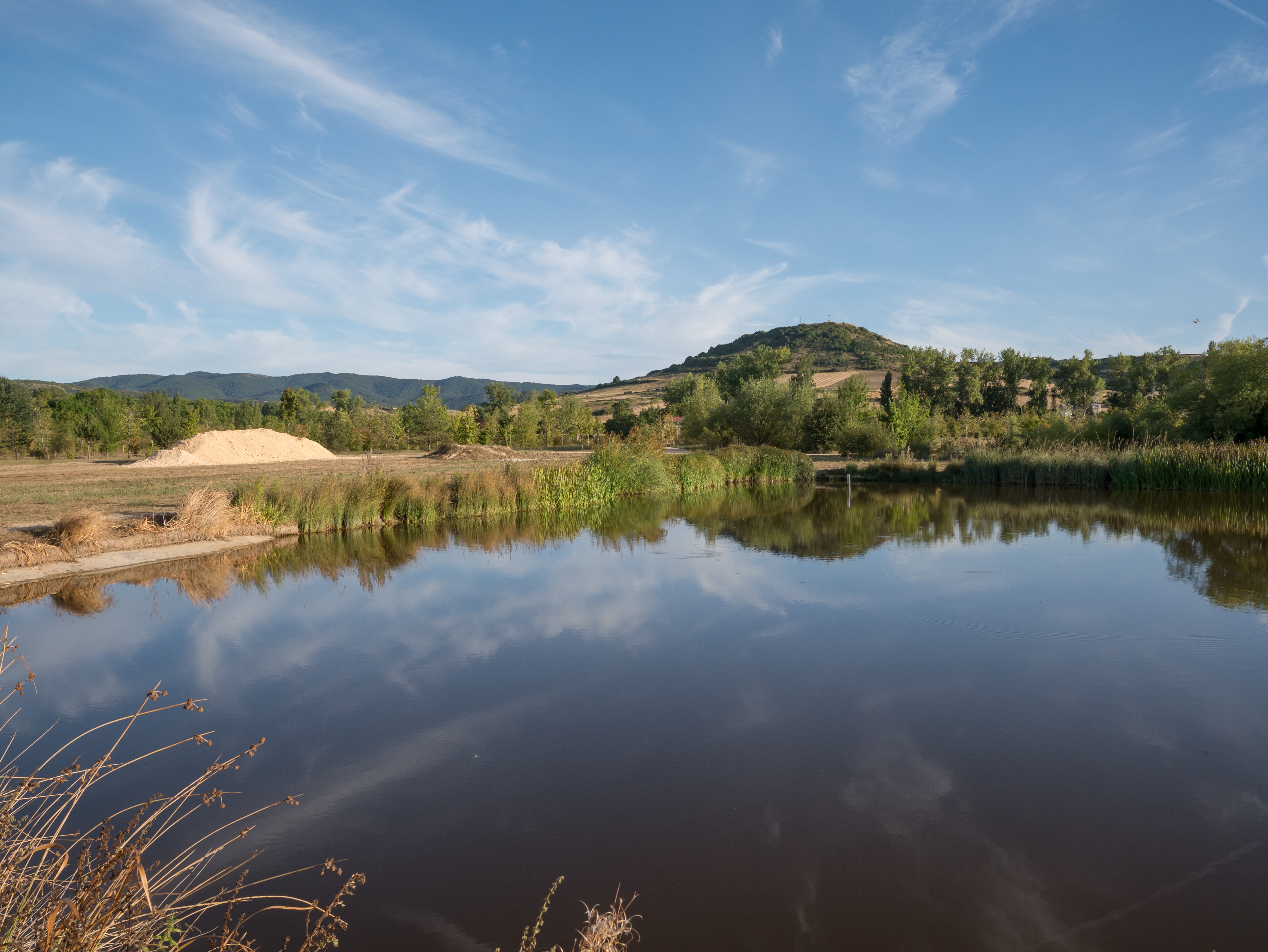 Lake of Olarizu at the Botanical Garden. Vitoria-Gasteiz, Basque Country, Spain